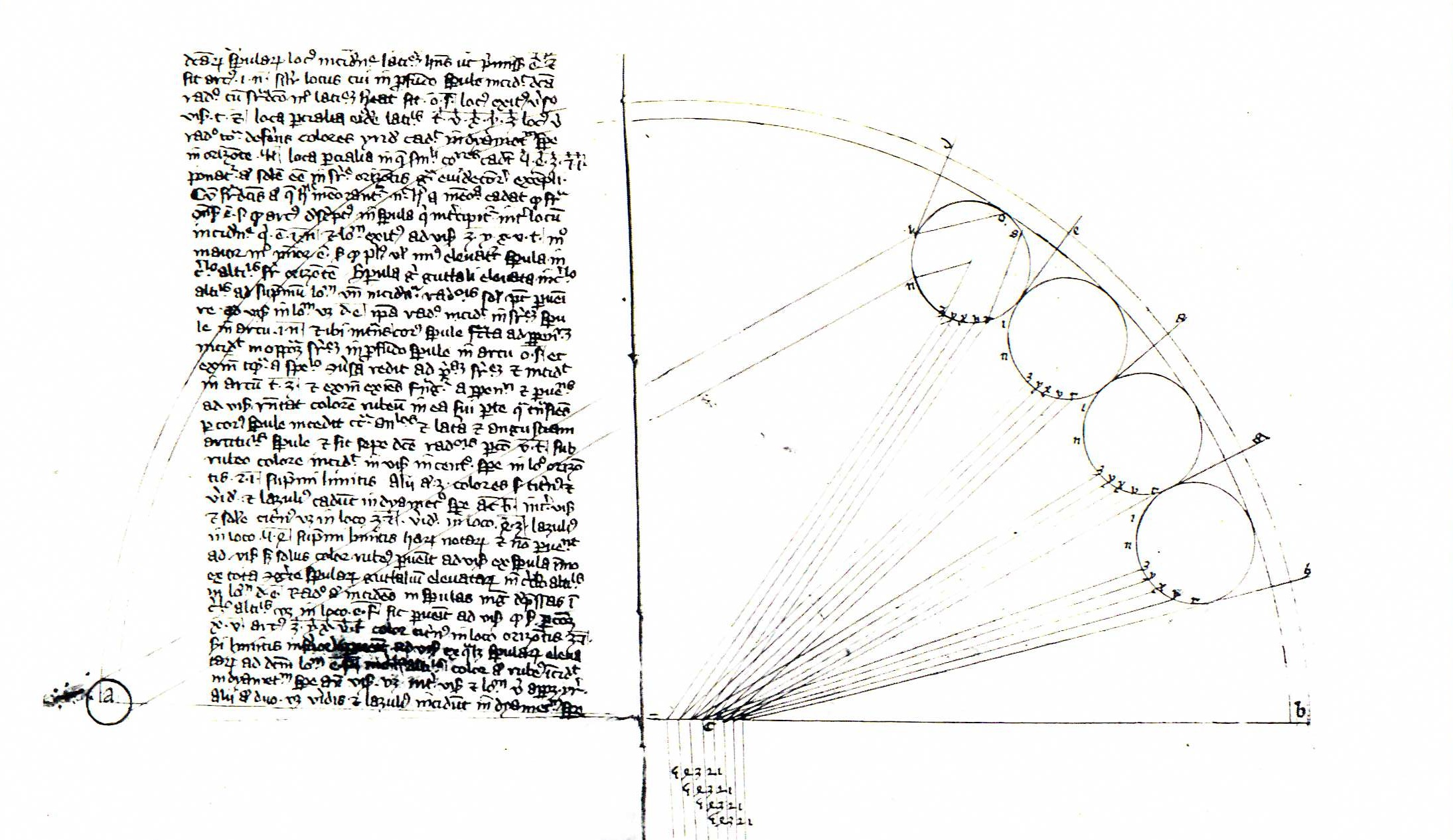 Theodoric of Freiberg: De Iride III,2,5. In: Manuscript Basel F. IV.30, f. 33v–34r.